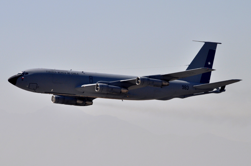 Pudahuel AFB, Santiago de Chile, March 2013